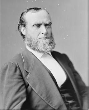 Eden, Hon. J.R. of Ill.